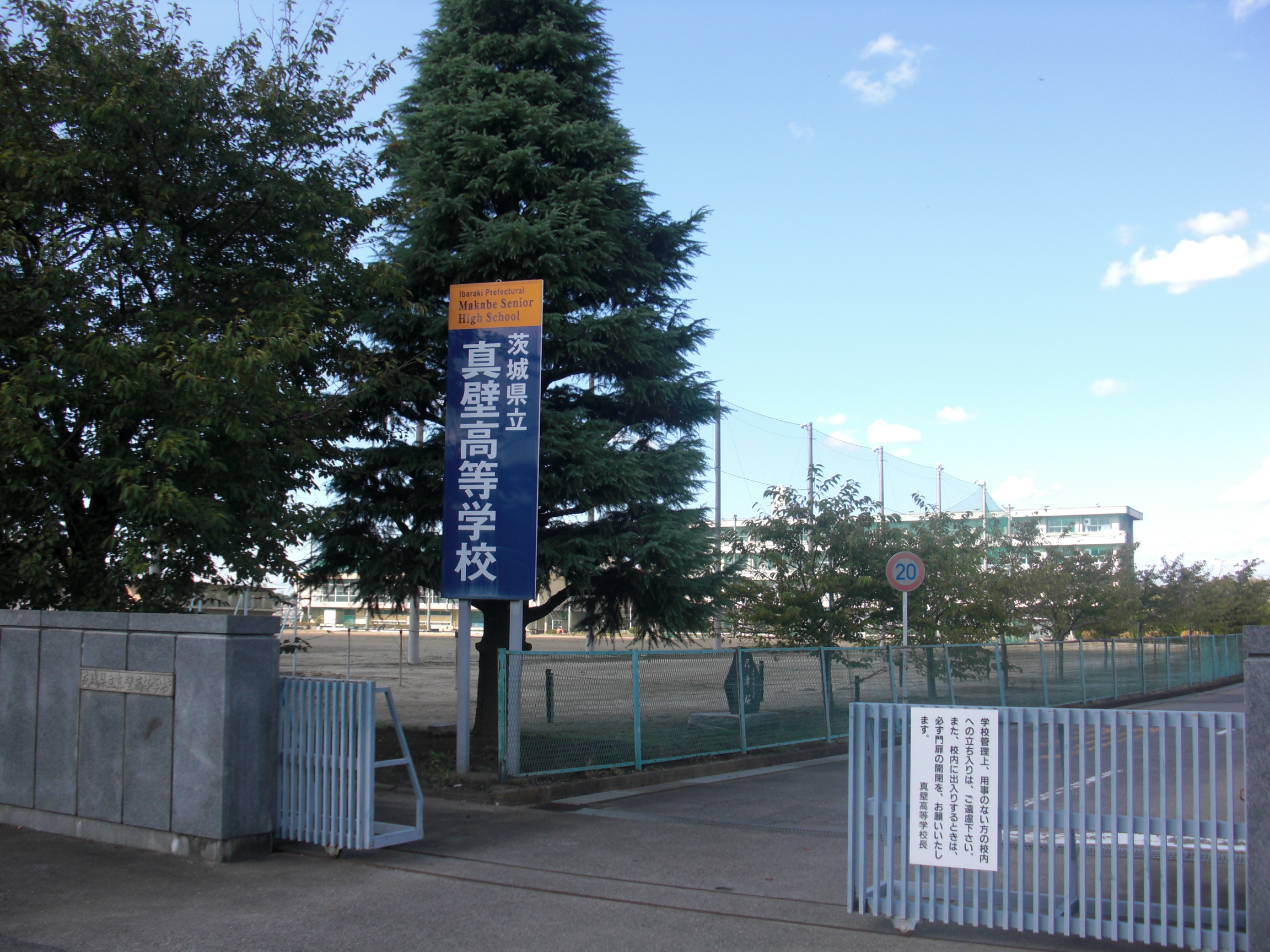 This is the main gate for Ibaraki Prefectural Makabe Senior High School, which is located in Sakuragawa, Ibaraki, Japan.